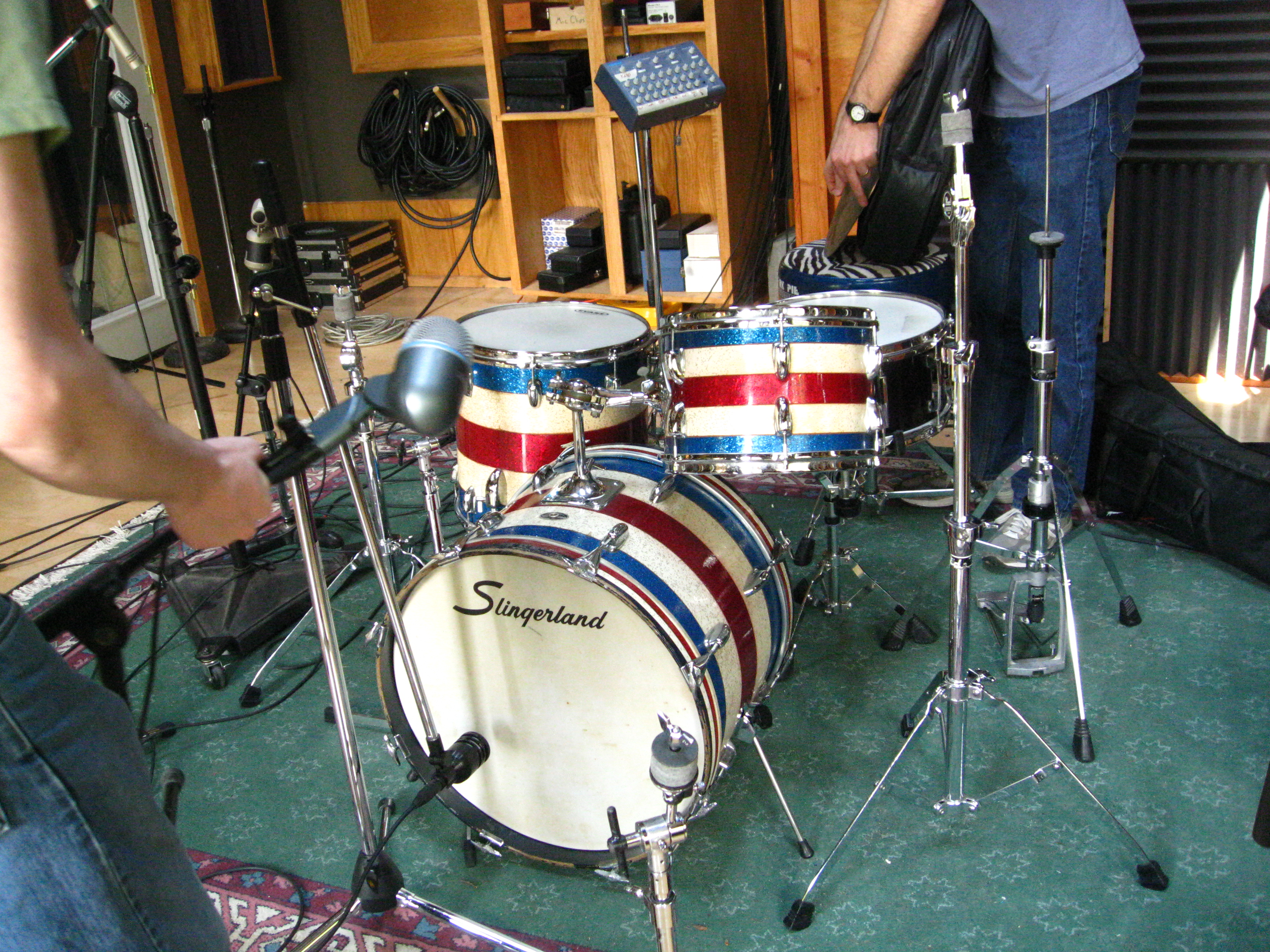 Slingerland drum kit at Supernatural Sound Recording Studio